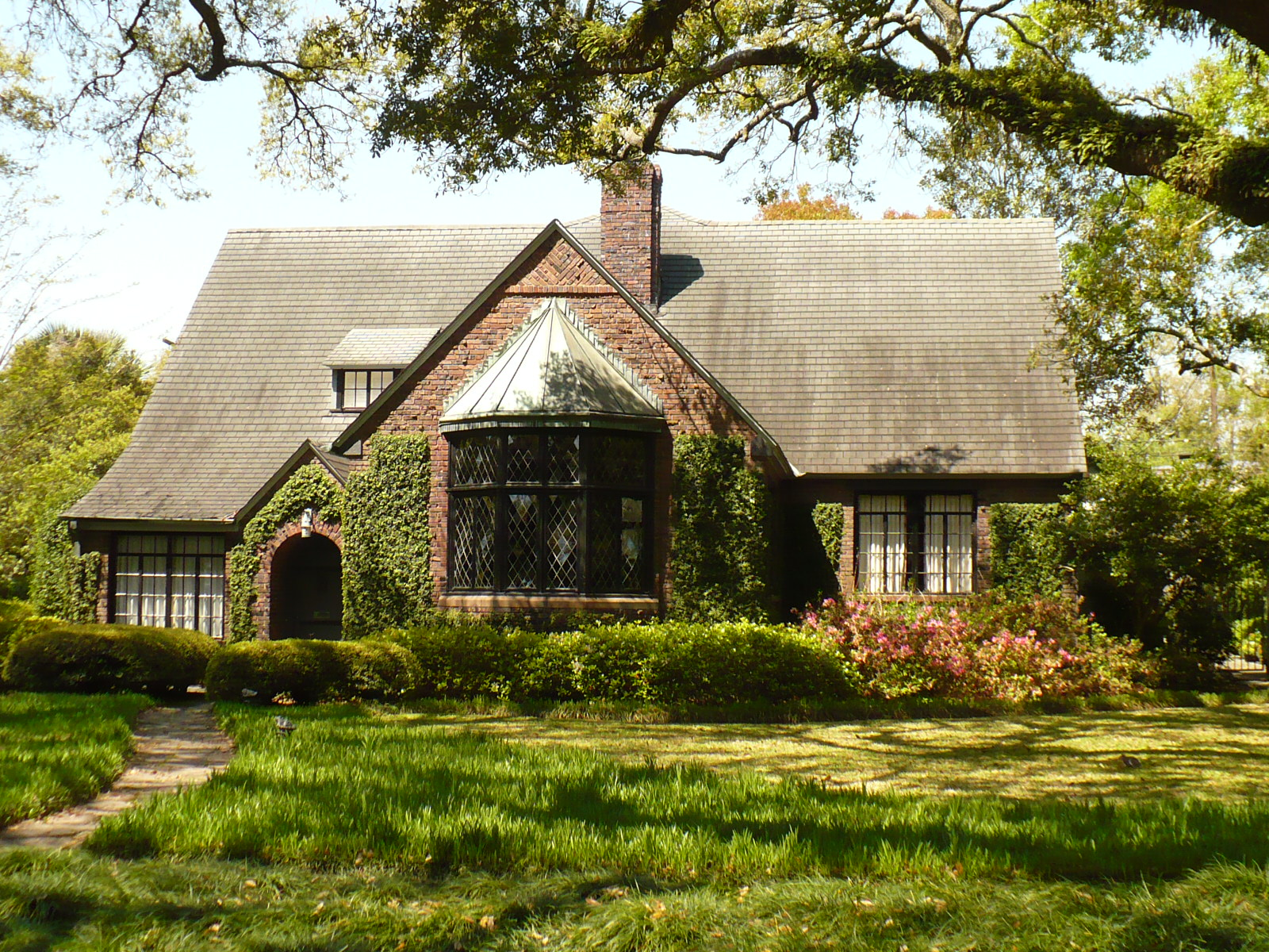 109 Lanier Avenue, within the Ashland Place Historic District in Mobile, Alabama.